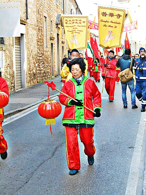 a moment of the show